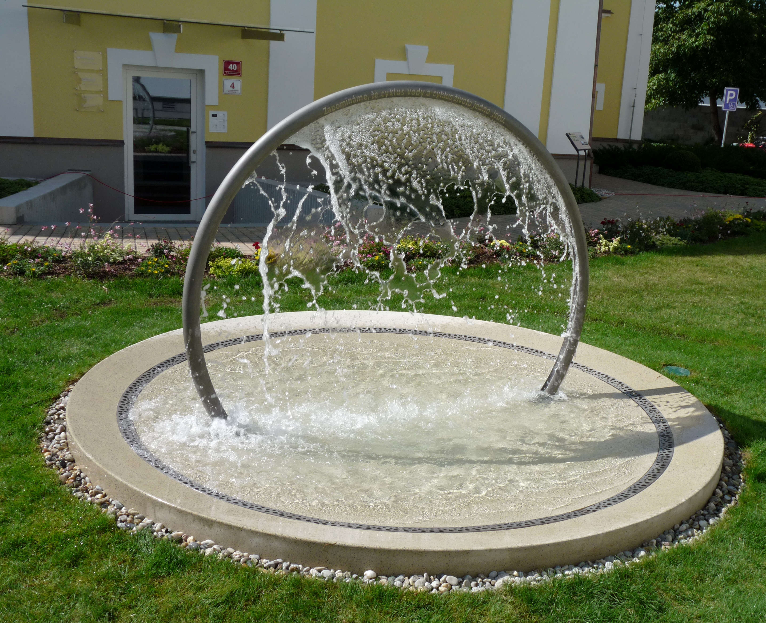 Information panel No 10 of the educational trail History of Water Supply in České Budějovice in České Budějovice, South Bohemian Region, Czech Republic.